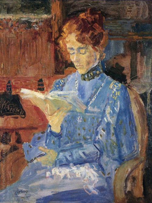 Lucie van Dam van Isselt ( Bergen op Zoom , June 15, 1871 - The Hague , June 7, 1949 ) was a Dutch painter , draftsman and etcher .